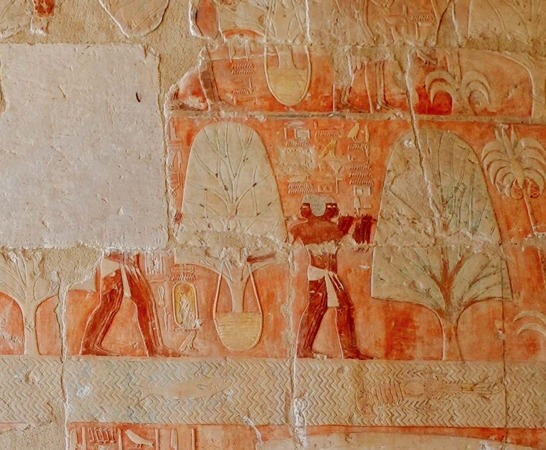 Punt relief. Mortuary Temple of Hatshepsut in Deir el-Bahari : Incense trees transportation. Early Eighteenth Dynasty. New Kingdom of Egypt.